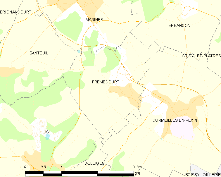 Map of French municipality Frémécourt